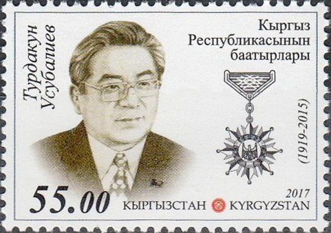 Heroes of the Kyrgyz Republic: Turdakun Usubaliev, politician.